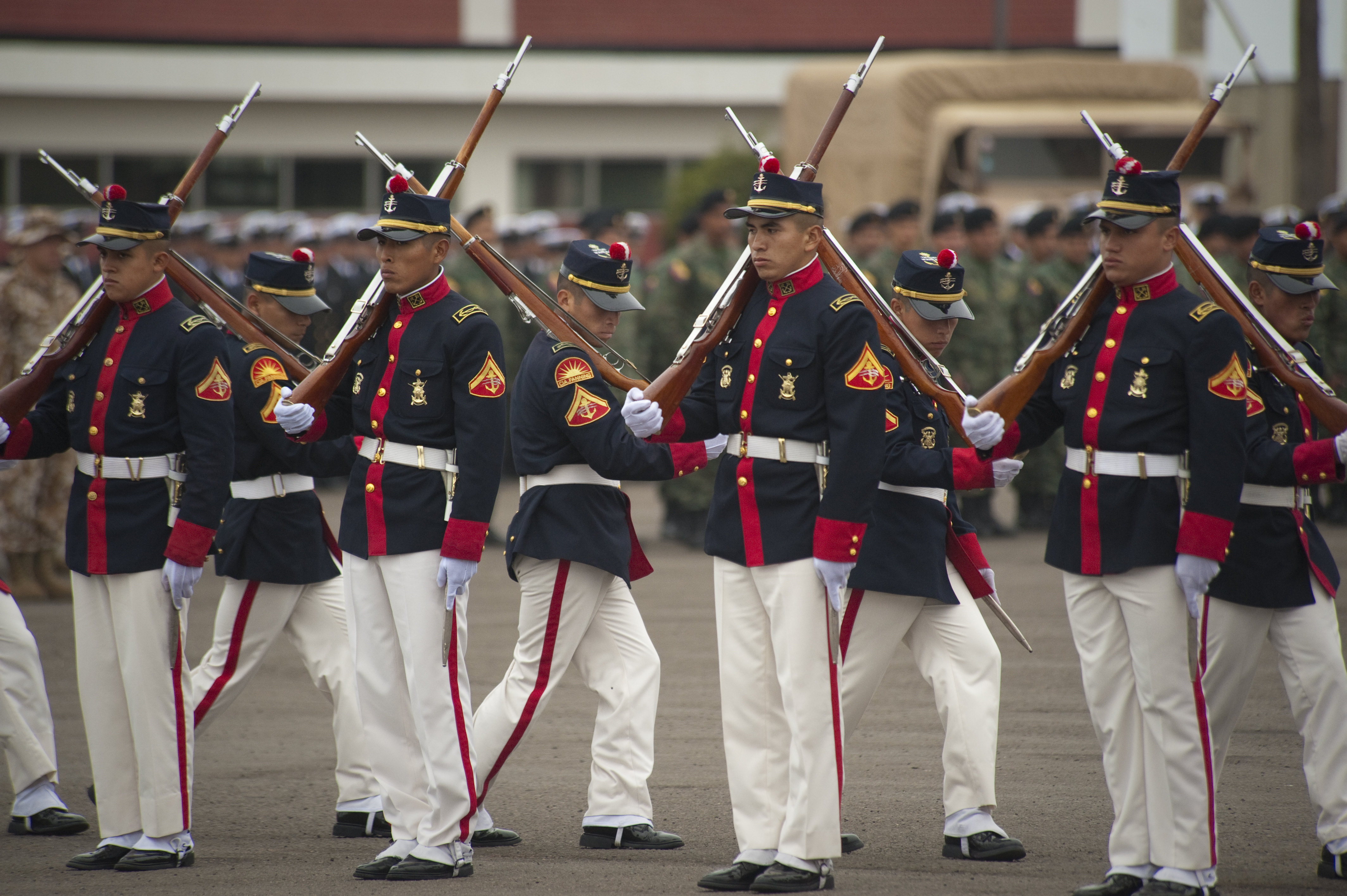 ANCON, Peru (July 5, 2010) Members of the Peruvian Marine Drill Team (note the broken rifle of the third soldier from the right which seems to be held together only by ordinary transparent office tape) perform at the opening ceremonies of Amphibious-Southern Partnership Station 2010 at Ancon Marine Base, Peru. New Orleans is participating in Southern Partnership Station, an annual deployment of U.S. military training teams to the U.S. Southern Command area of responsibility. (U.S. Navy photo by Mass Communication Specialist 1st Class Brien Aho/Released)